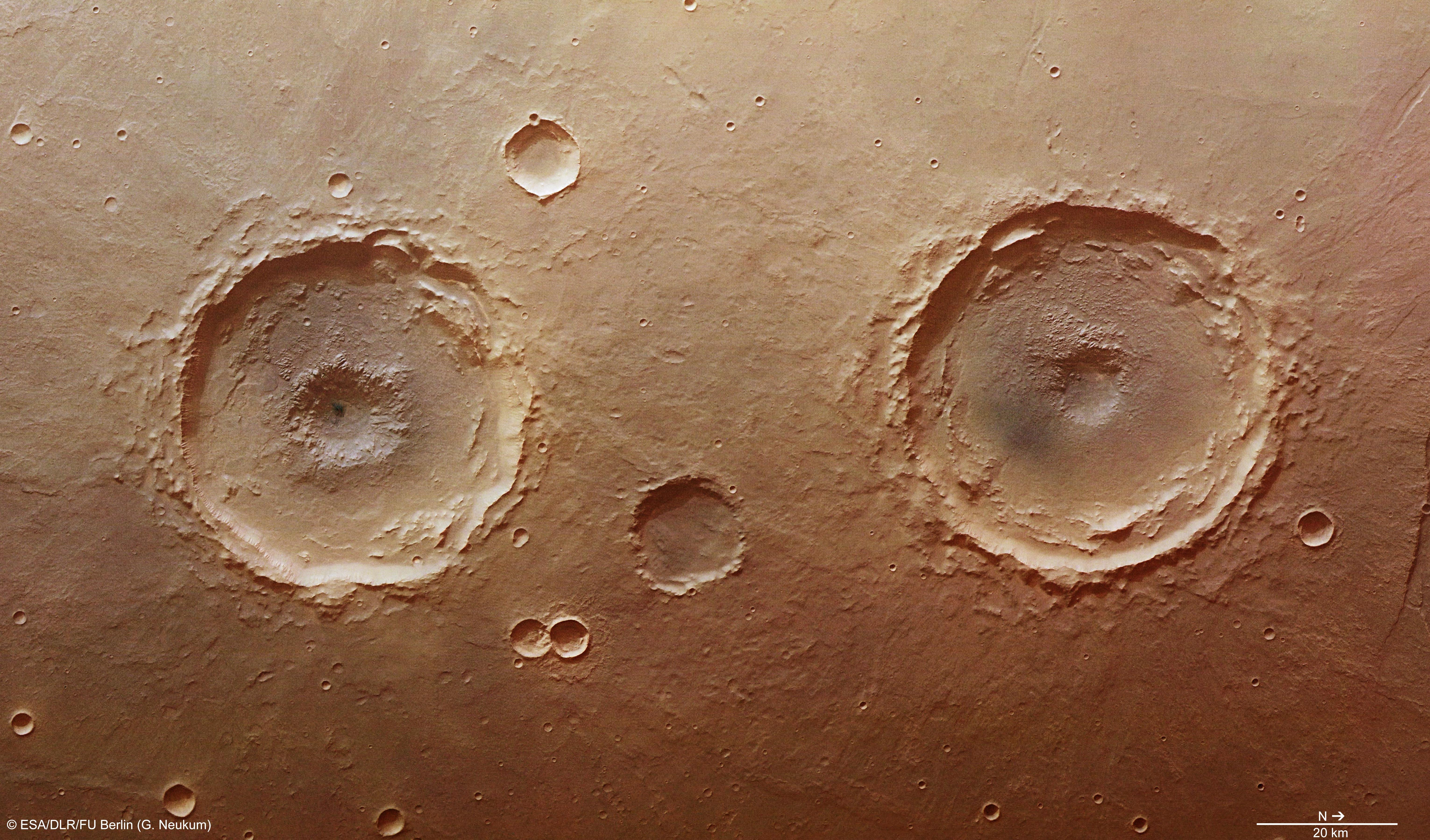 High-Resolution Stereo Camera nadir and colour channel data taken during orbit 11467 on 4 January 2013 by ESA’s Mars Express have been combined to produce this colour view of two craters, both roughly 50 km in diameter. The data were acquired in the Thaumasia Planum region just south of Vallis Marineris at approximately 17°S / 296°E and have a ground resolution of approximately 25 m per pixel. The northern (right) crater is named Arima, while the southern (left) crater is unnamed. Both large craters sport central pit features. For more information, please click here. Credit: ESA/DLR/FU Berlin (G. Neukum), CC BY-SA 3.0 IGO Copyright Notice: This work is licenced under the Creative Commons Attribution-ShareAlike 3.0 IGO (CC BY-SA 3.0 IGO) licence. The user is allowed to reproduce, distribute, adapt, translate and publicly perform this publication, without explicit permission, provided that the content is accompanied by an acknowledgement that the source is credited as 'ESA/DLR/FU Berlin’, a direct link to the licence text is provided and that it is clearly indicated if changes were made to the original content. Adaptation/translation/derivatives must be distributed under the same licence terms as this publication. To view a copy of this license, please visit